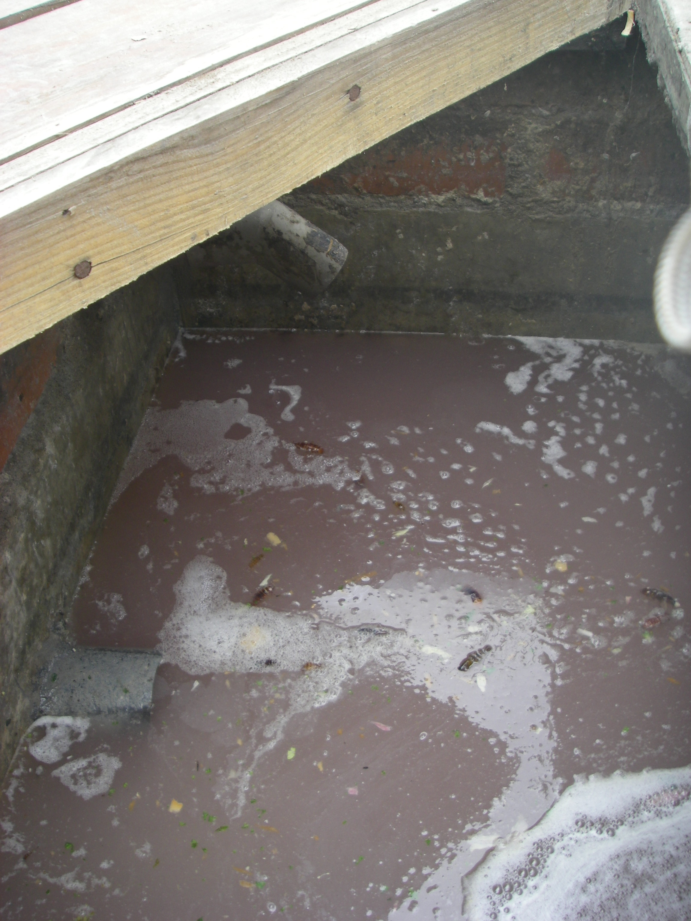 Peru - Chorillos (Lima) Sustainable sanitation system at a school